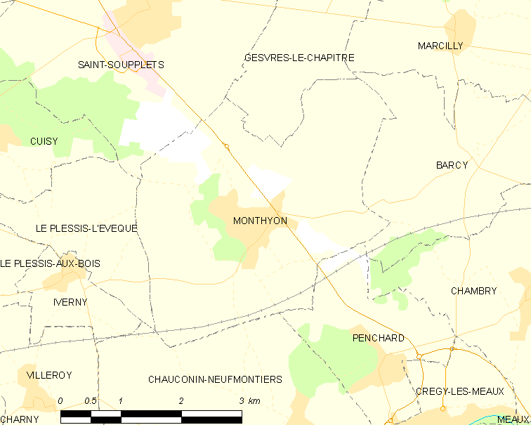 Map of French municipality Monthyon